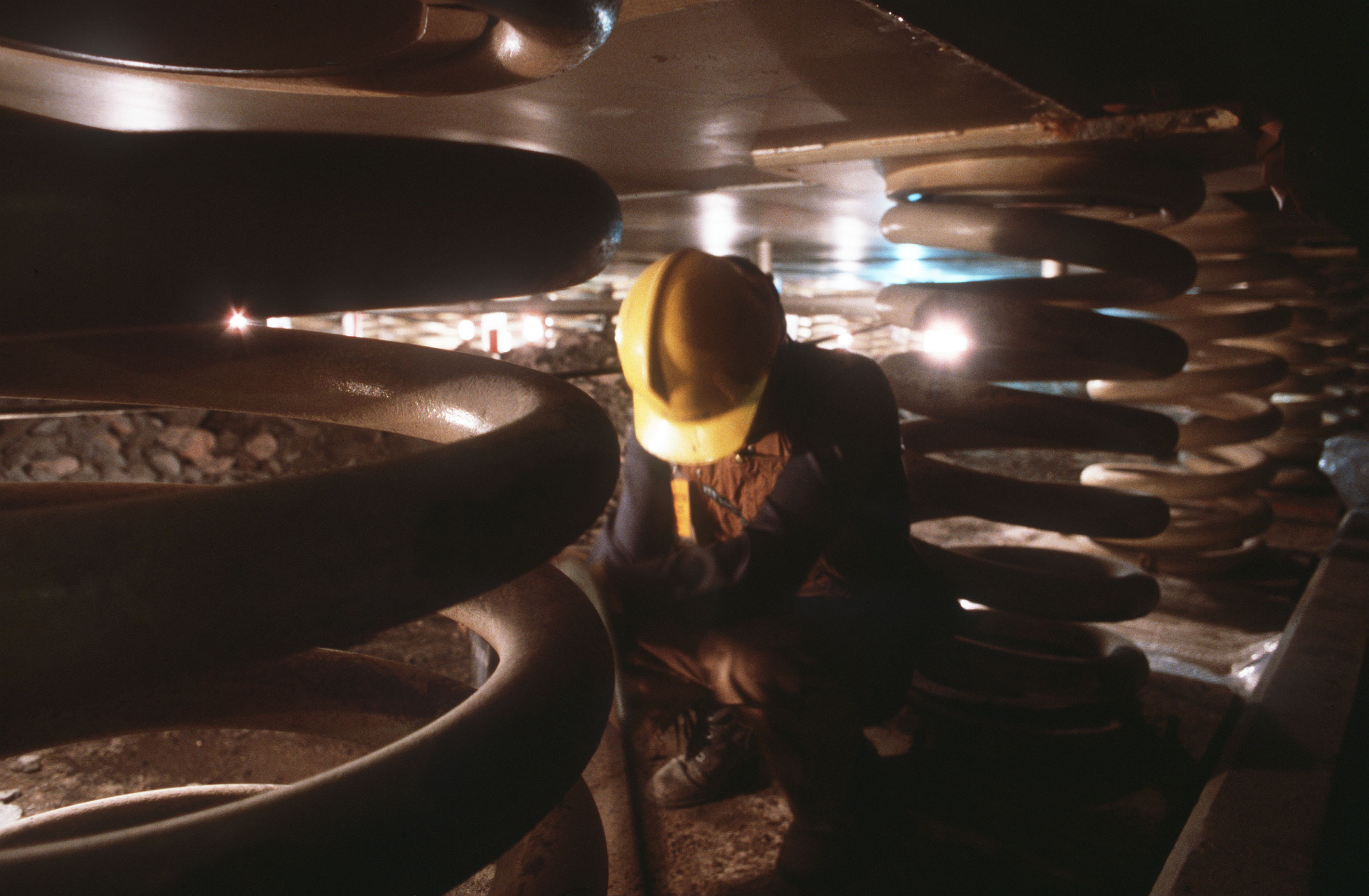 A technician examines large coil springs that are used to support the underground steel buildings of the North American Air Defense Command (NORAD) Cheyenne Mountain Complex. The springs are designed to absorb the shock of a nuclear blast.